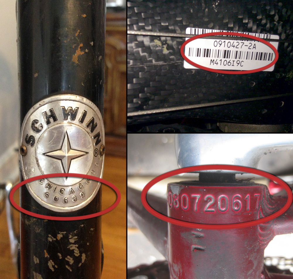 A collection of bicycle serial numbers: An old schwinn serial on the headtube badge (left), a serial number in the traditional place -under the bottom bracket (bottom right), and one under a carbon layup (top right).